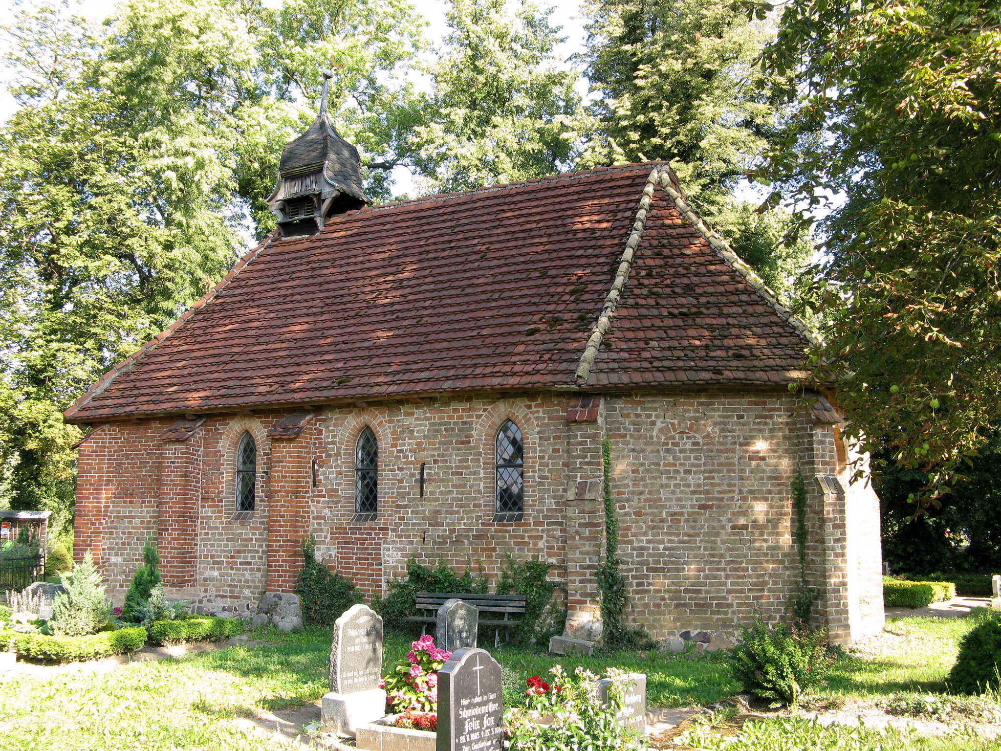 Church in Mistorf, disctrict Rostock, Mecklenburg-Vorpommern, Germany